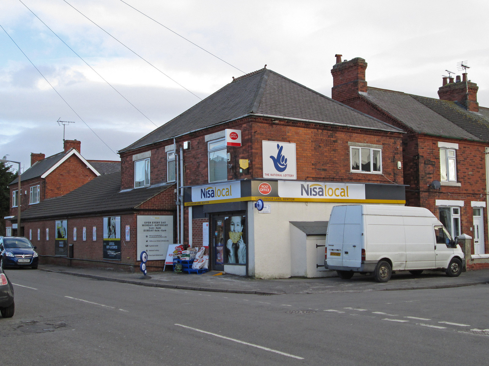 Newton - Post Office and general store on Littlemoor Lane